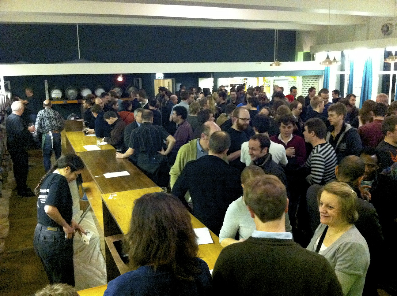 Friday evening at the Cambridge Winter Beer Festival 2011, held at the University Social Club on Mill Lane, Cambridge, UK. Shows bar, bar staff and customers.